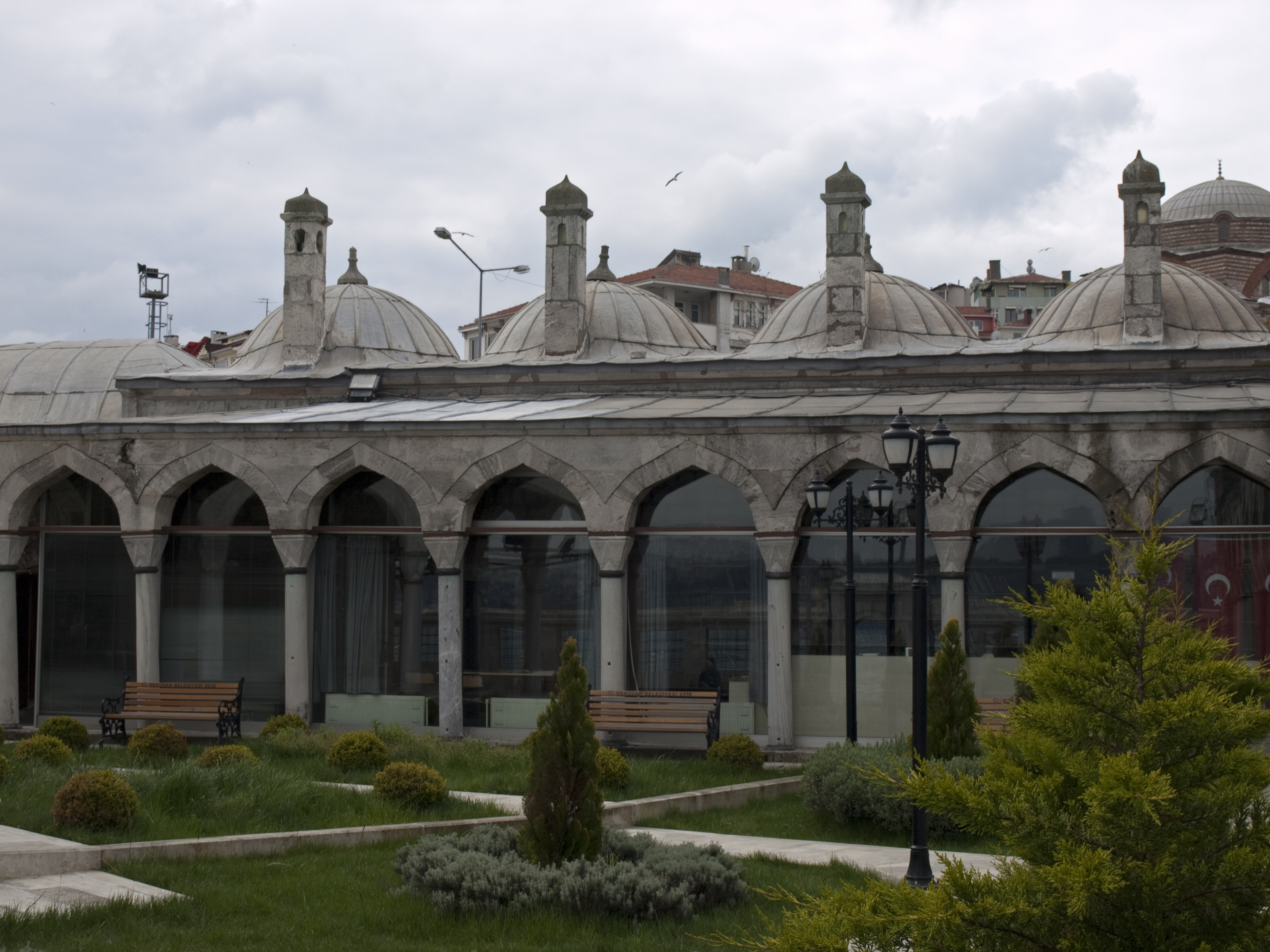 Madrasa and courtyard at the Şemsi Pasha Mosque—Üsküdar, Istanbul, Turkey.